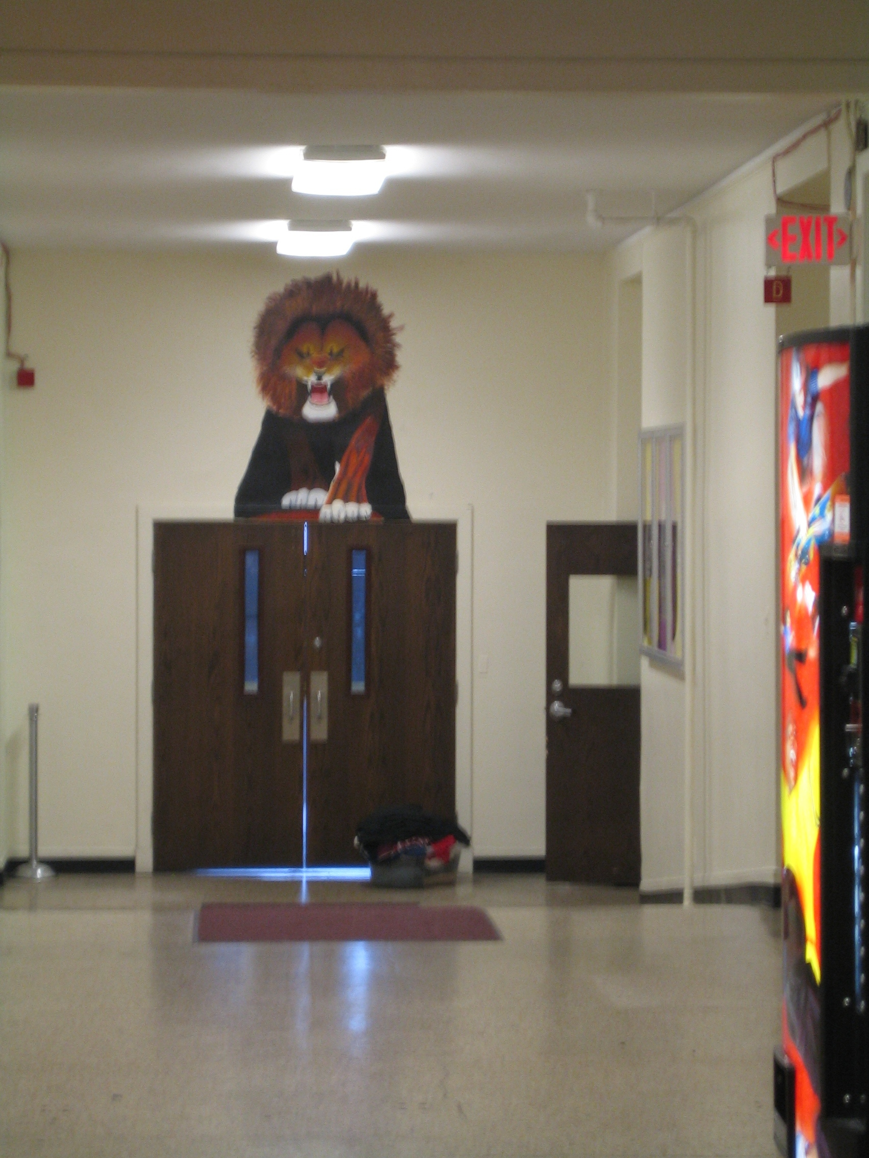 Entrance to gymnasium